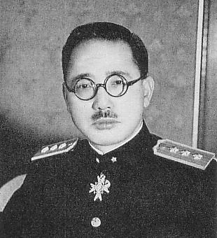 Gunzo Kayaba(The 45th Superintendent General of the Tokyo Metropolitan Police Department)